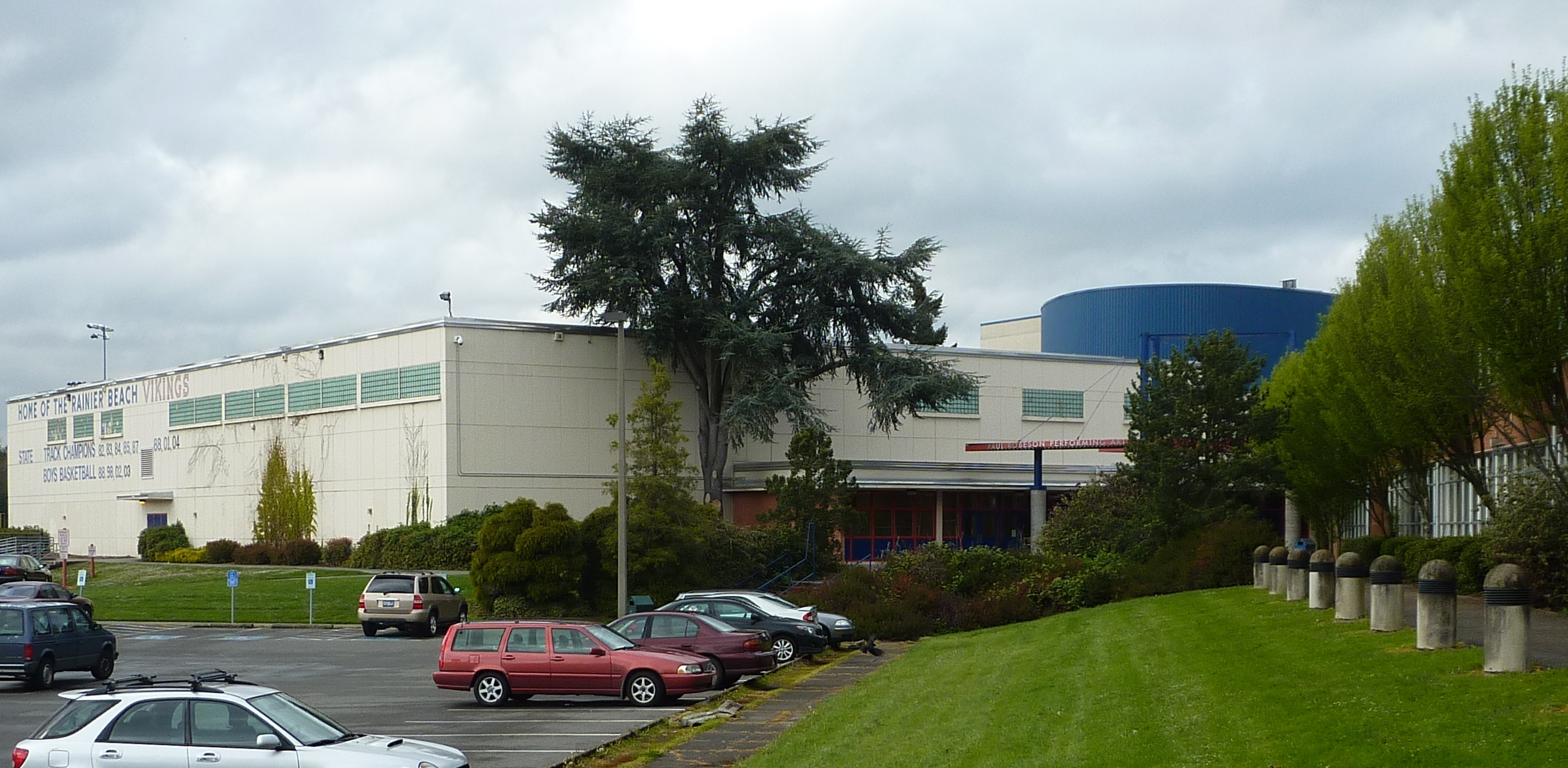 From the south looking at the southwest facade of the gymnasium, entry to the performing arts center, and the west facade of the classroom wing.